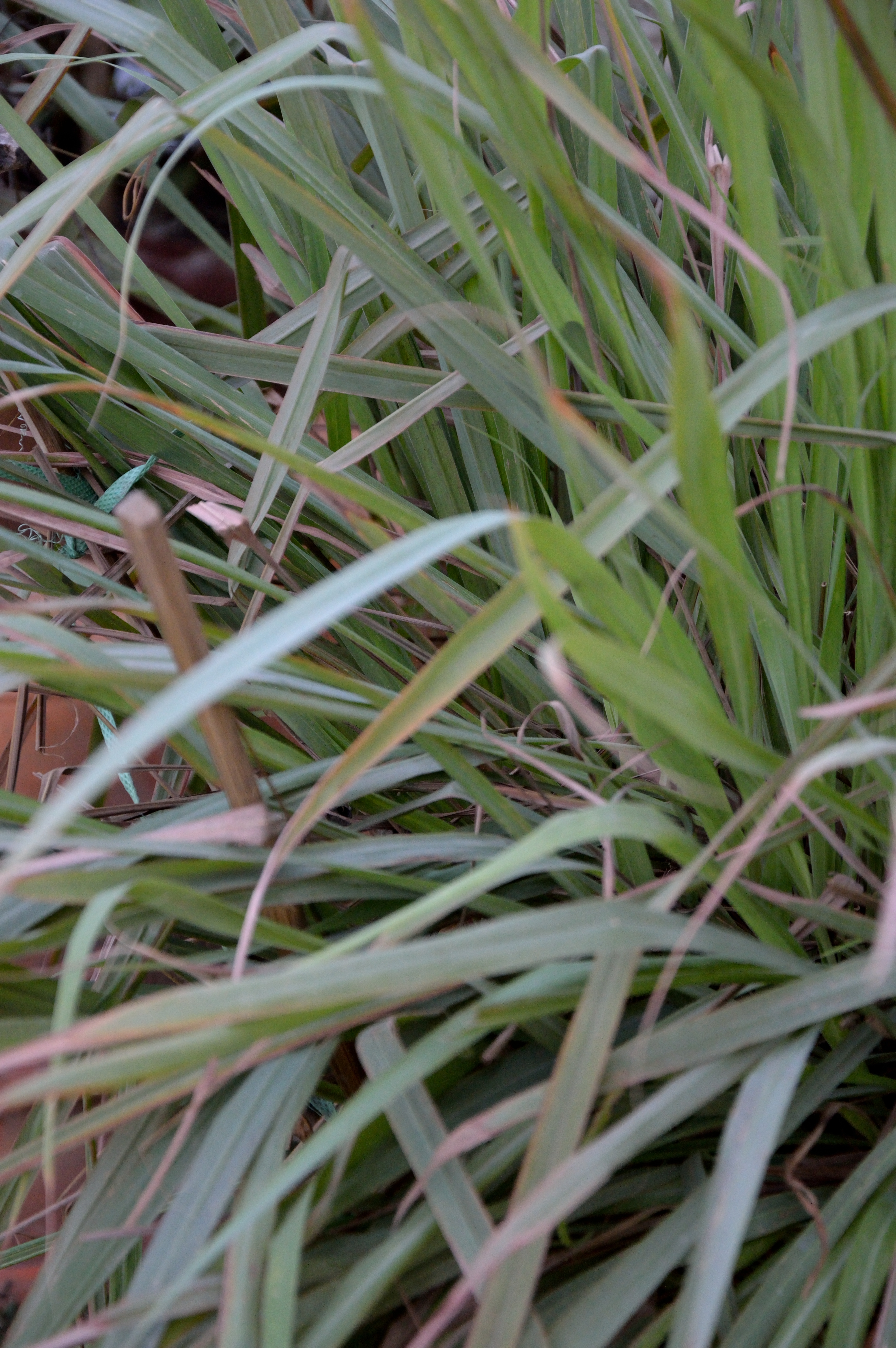 The 186th Annual Flower Show was held at the garden of the Agri-Horticultural Society of India, Alipore, Kolkata, from 7 to 10 February 2013. The exhibition comprises Bonsai, Cacti, Crotons, Dahlias, Fruits, Herbal plants, Palms, Roses, Succulents, Vegetables and perennial flowering plants in pots and uprooted.